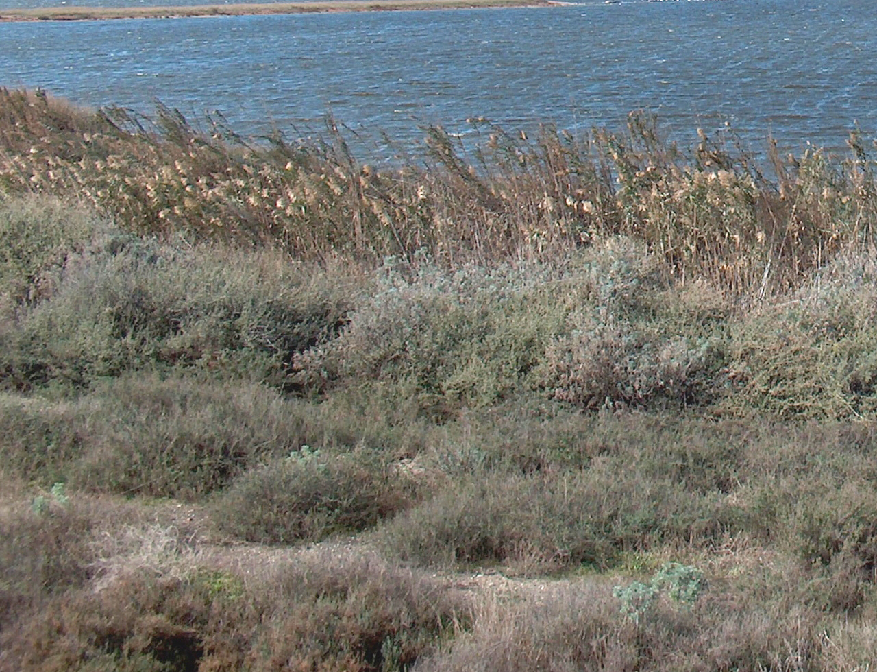 Vegetation of xerophytes and halophytes near the Pond of Molentargius (Cagliari, Sardinia, Italy)